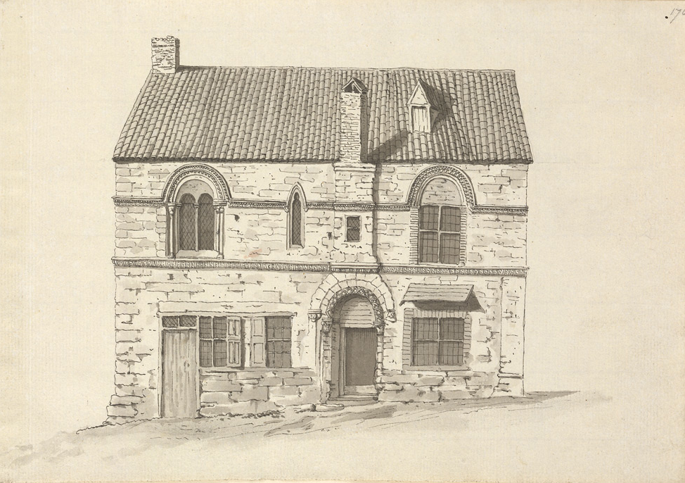 Drawing by Samuel Hieronymus Grimm c1784 of the Jew's House, Lincoln